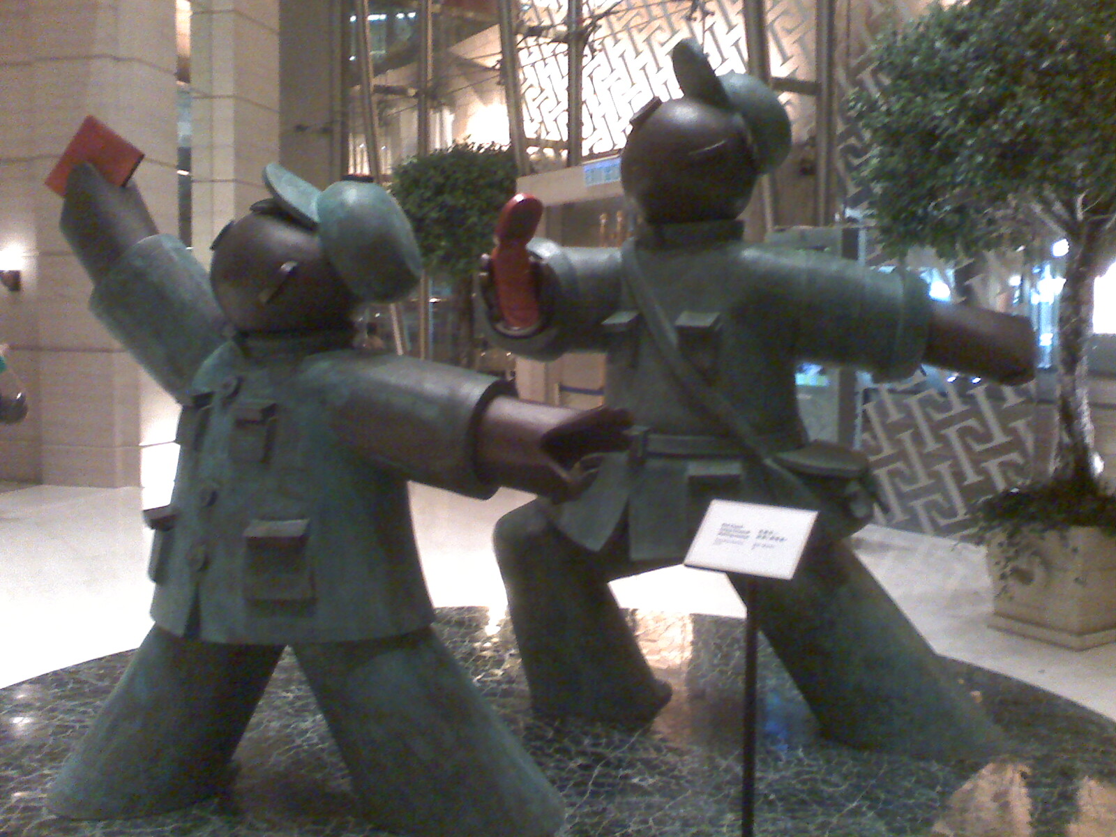 Statue in the lobby of the Langham Place Hotel Red Guards- Going Forward! Making Money! by Jiang Shuo (2004)